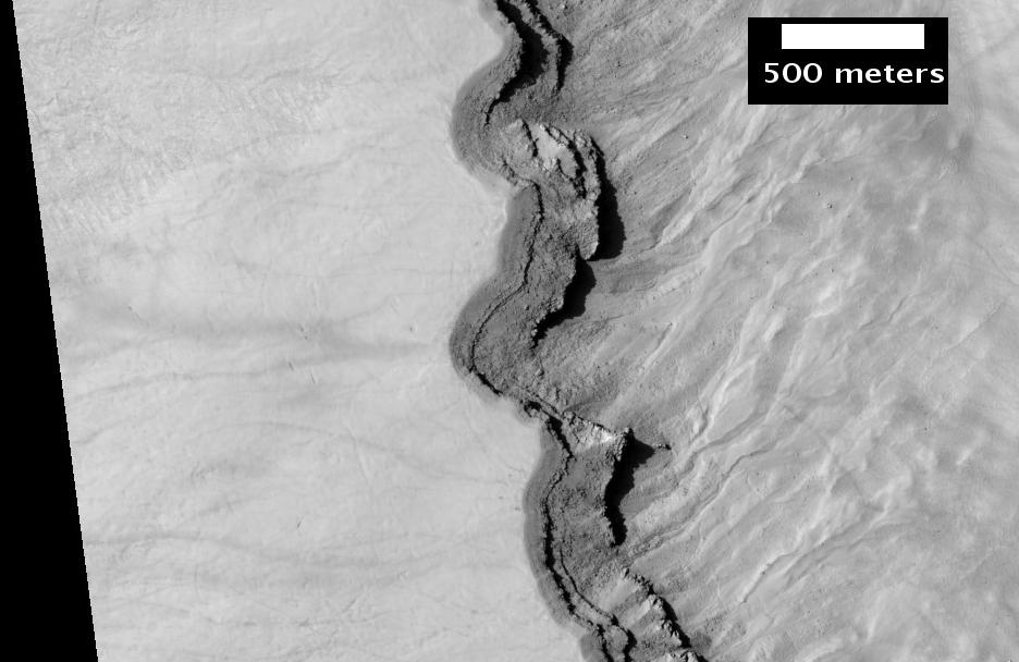 Close-up of Asimov layers showing shadow of overhangs, as seen by hirise. Location is 47.1 S and 4.2 E.